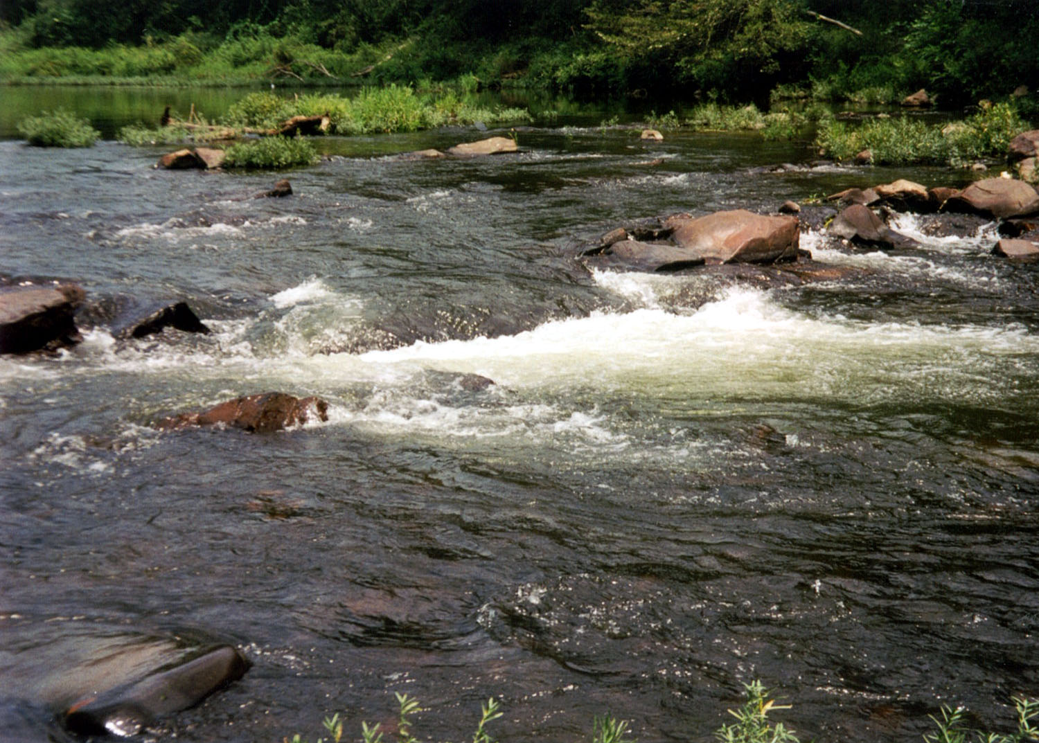 The Cossatot River at Cossatot Reefs Park near Gillham Lake in Howard County, Arkansas, USA. Coordinates: 34°13′51.98″N 94°13′59.41″W / 34.2311056°N 94.2331694°W